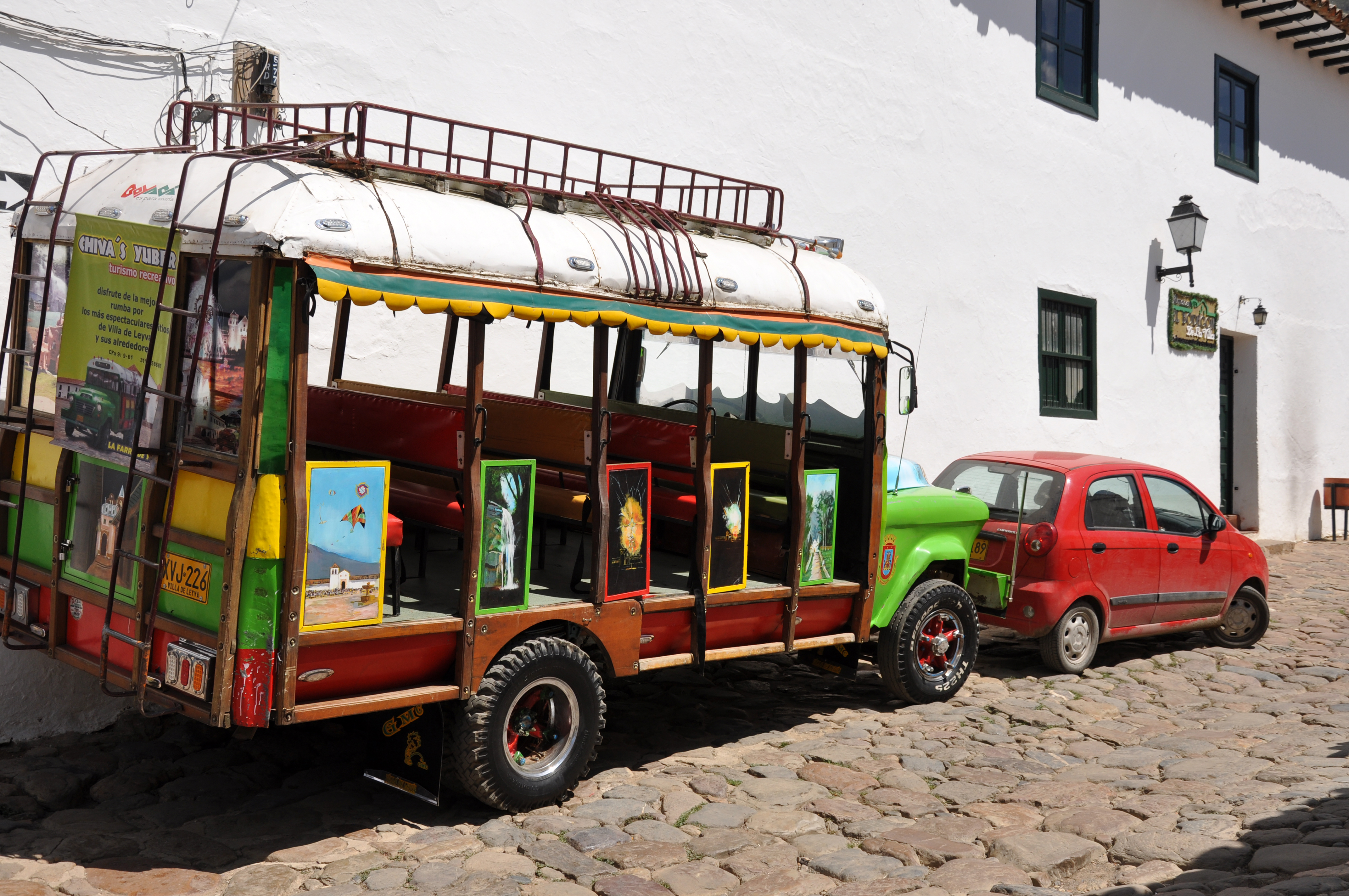 Chivas are used in rural areas of Colombia, they are characterized for being painted colorfully (usually with the yellow, blue, and red colors of the flags of Ecuador and Colombia) with local arabesques and figures. Most have a ladder to the rack on the roof which is also used for carrying people, livestock and merchandise.